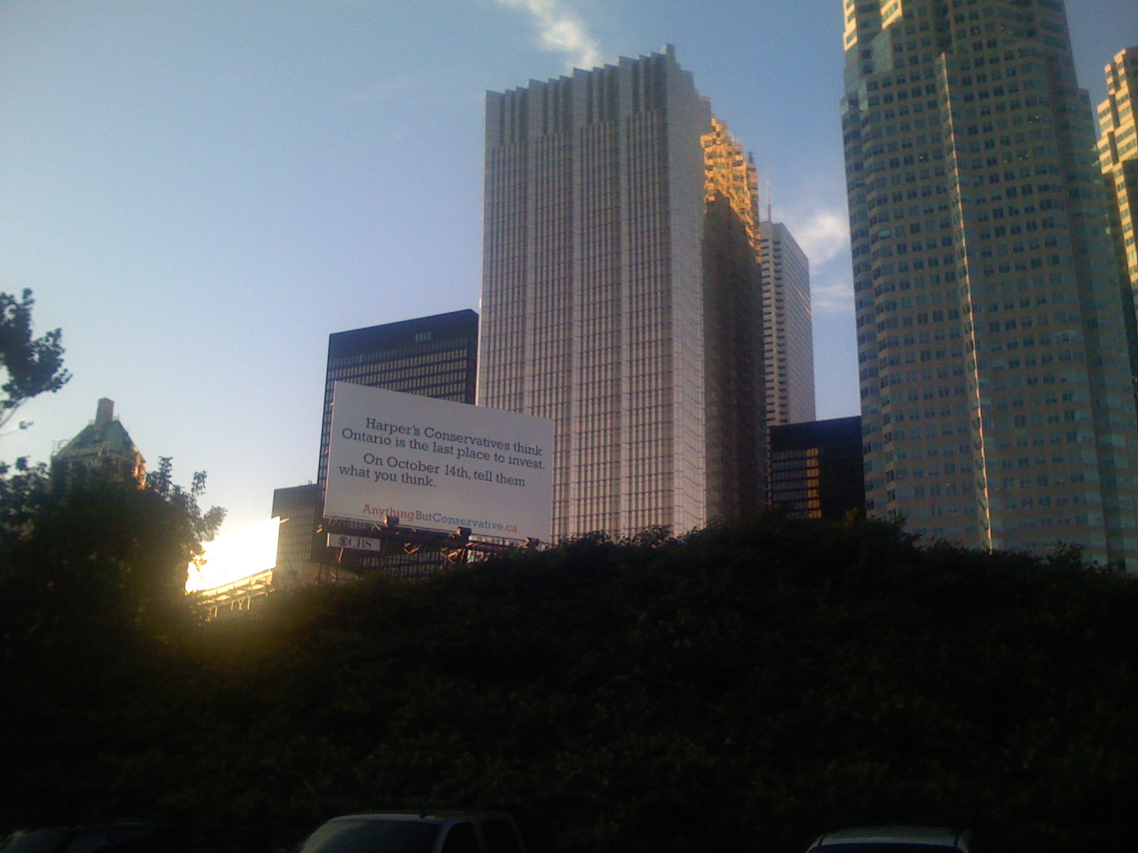 One of the few political statements I can (almost) agree with these days - the infamous ABC campaign billboard on the Gardiner.